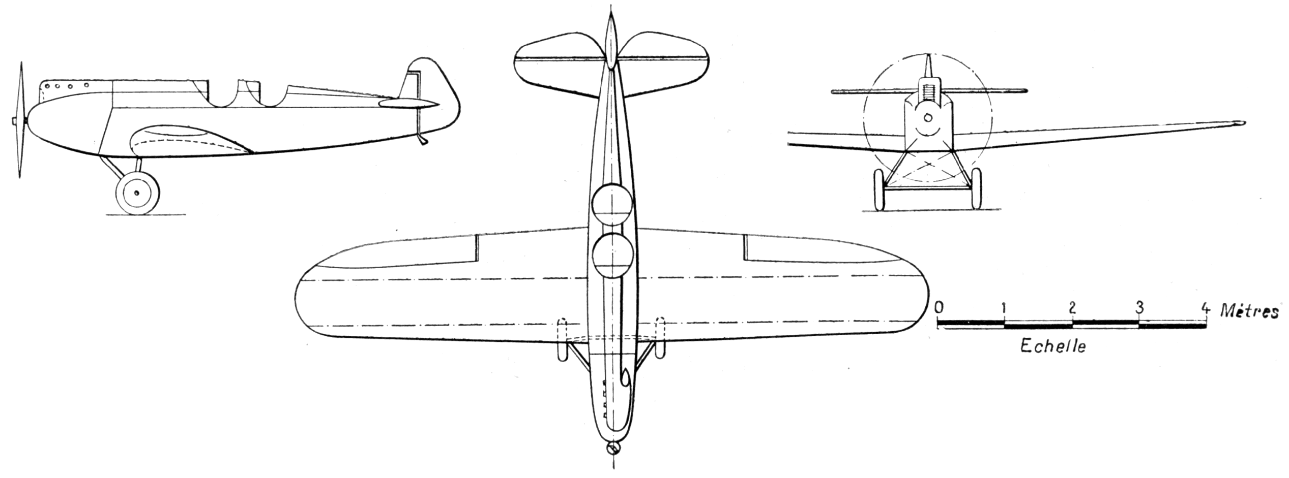 Raab-Katzenstein RK 25 3-view drawing from L'Aéronautique September,1929